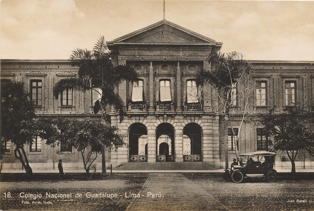 The Gudadalupe school in Lima, Peru